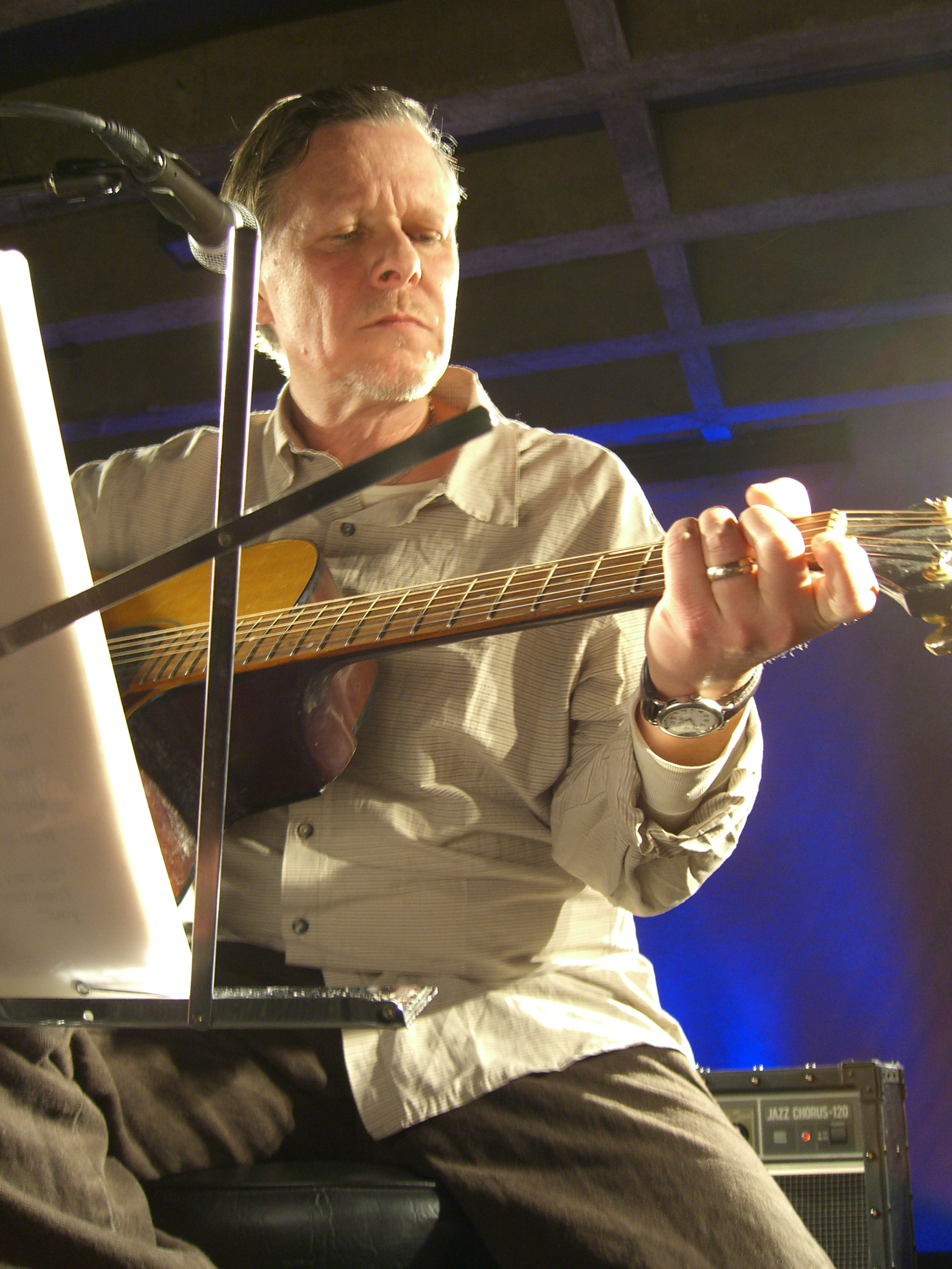 Michael Gira performing at The Doug Fir Lounge, Portland, OR. March 03, 2009. Photo by Howard Forbes